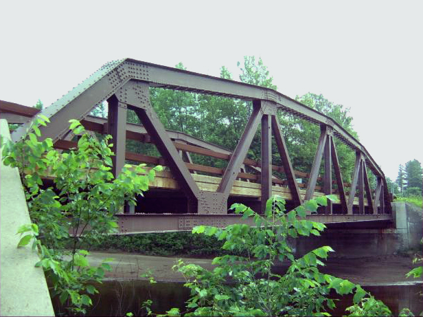 NY 74 crossing over a truss bridge in Essex County.